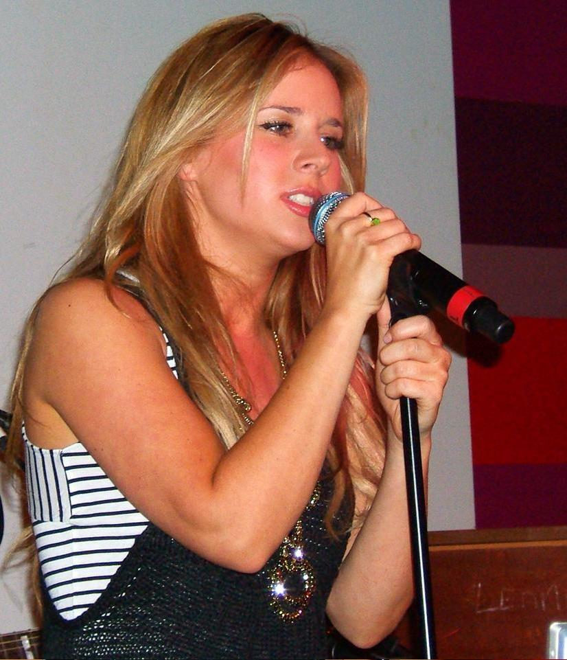 Special Acoustic gig at the Glee. Wow, what a gig!